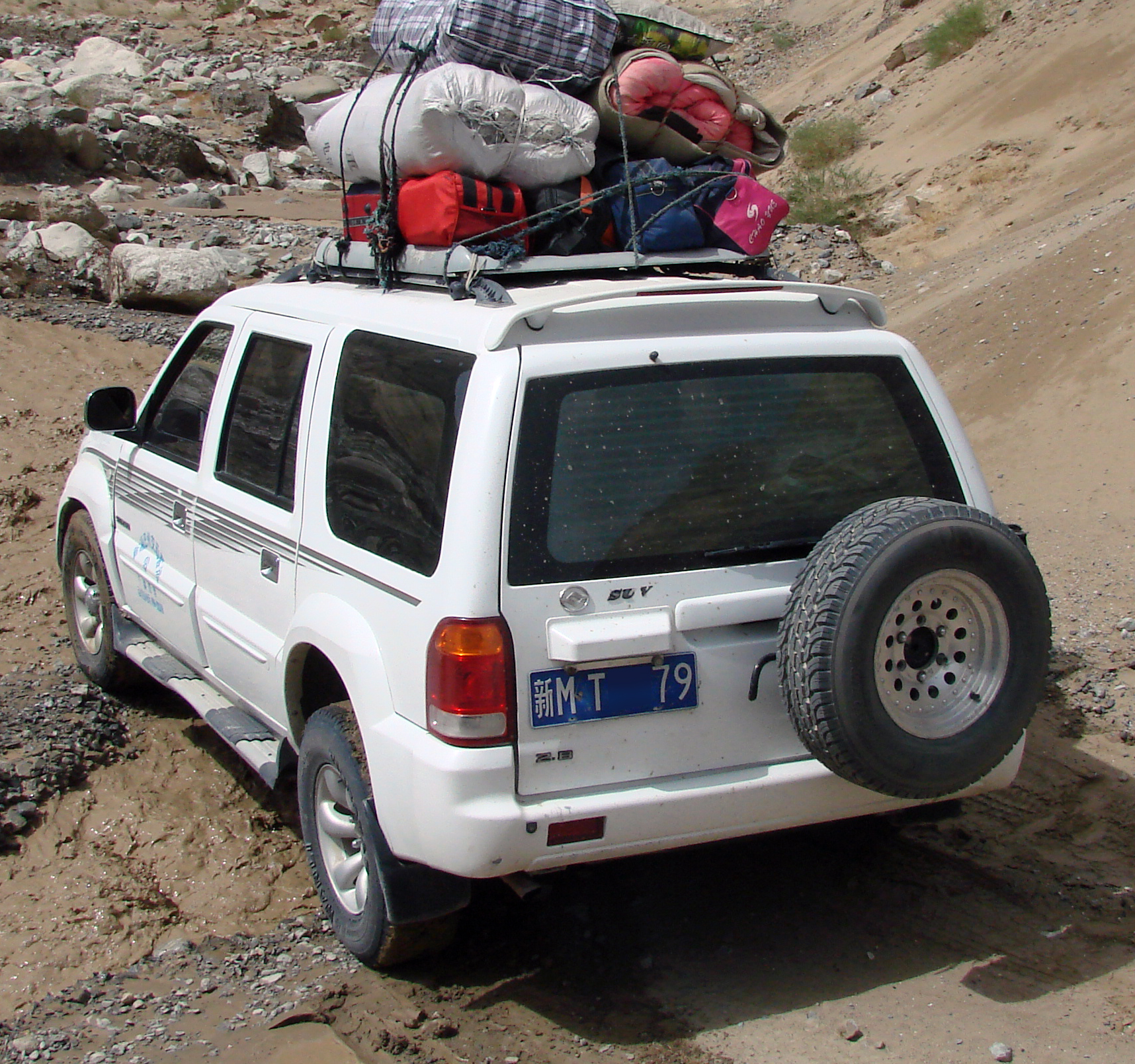 A Huanghai SG 6480 Dawn 2.8 diesel SUV in the Taklamakan Desert, carrying quite the load